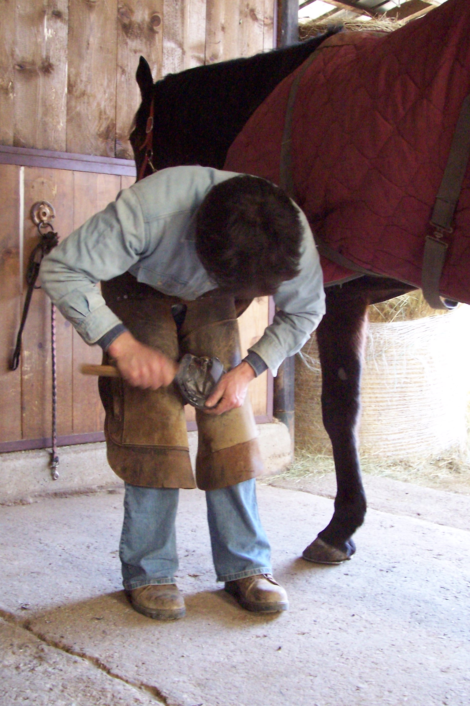 An italian farrier at work